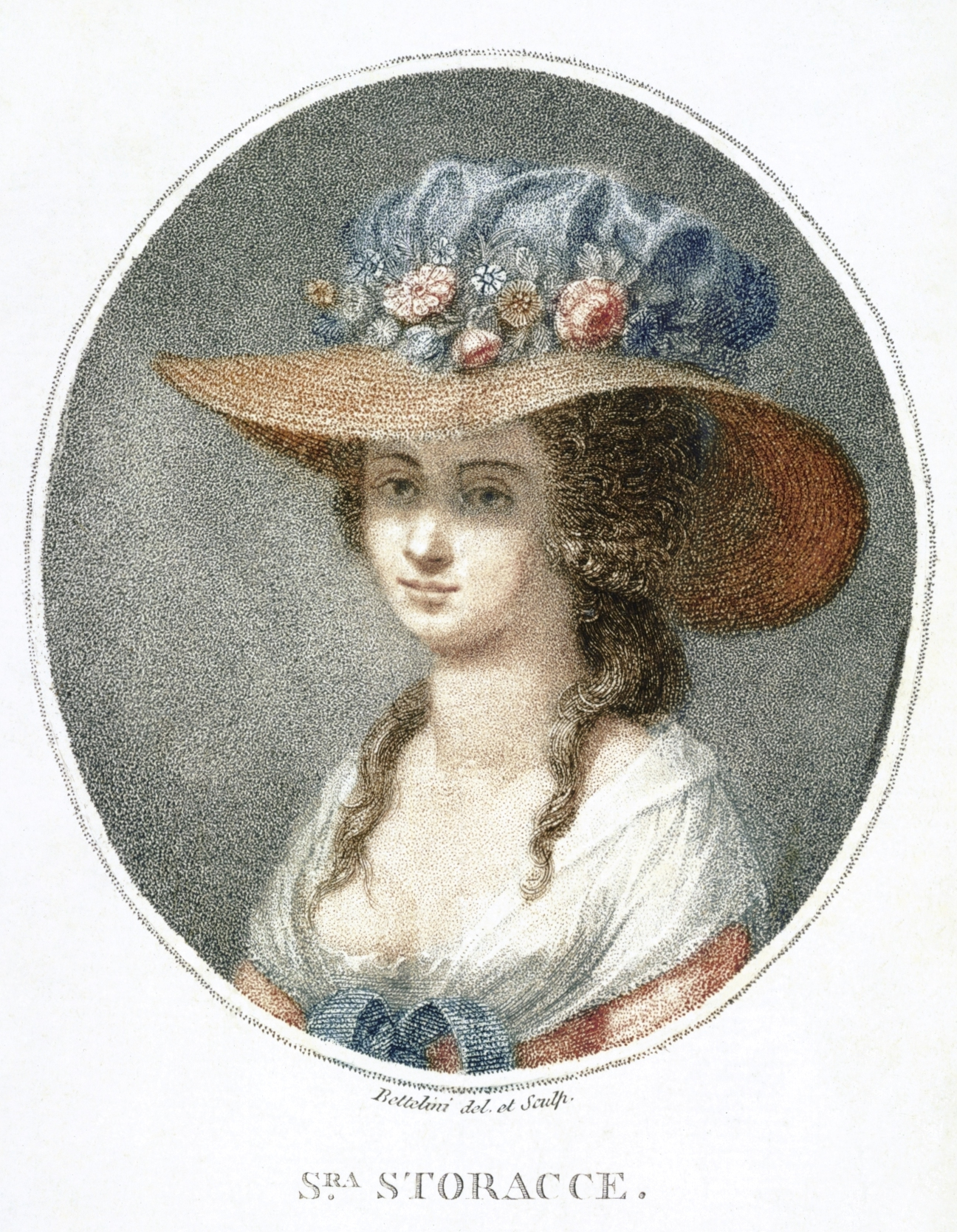 Portrait of Nancy Storace (1765–1817), English soprano. Printed in April 12, 1788 by Moltens Colnaghi & Co No. 32 Pall Mall, and in Paris by chez Tessari Zanna et Ce. Quay de Augustins No 42. This is a retouched picture, which means that it has been digitally altered from its original version. Modifications: There was a lot of staining to the paper, and one or two bits where either the hand-tinting hadn't been done very well, or water damage had occured. As the hand-tinting was generally done as a batch, and not by the artist who made the original engraving, I decided to try and make it look like the best possible copy of the mass-produced hand-tinted engraving..